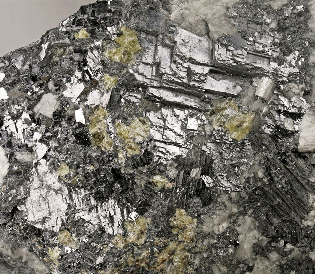 Argentiferous Galena (FOV ~ 7.1 x 6.2 cm. Overall size ~ 11 x 11 x 6 cm) Locality: Limecrest Quarry, Sparta Township, Sussex County, New Jersey, USA Original description: Galena cleavages with yellow “cleiophane”. Associated with white barite (fluorescent pale blueish white) and purple fluorite (not very fluorescent) but there is very little of either in the photo. Overall size ~ 11 x 11 x 6 cm. Originally posted as from the excavation for the “Edison Tunnel” at Sterling Hill. However - in cleaning up my garage - I found two whole buckets of this stuff labeled "Limecrest 11 '92". So there appears to have been some "label hopping" (not to mention a faulty memory). However, I can't believe that I would - or could - actually carry two buckets of this stuff (plus various sledge hammers) out of Limecrest! Possibly this stuff was actually put on the Sterling Hill Mine Run Dump for the benefit (and confusion) of collectors.